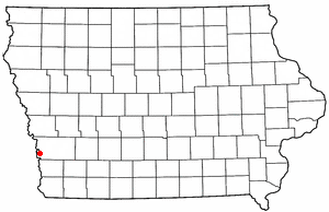 Map of Iowa, dot on Council Bluffs